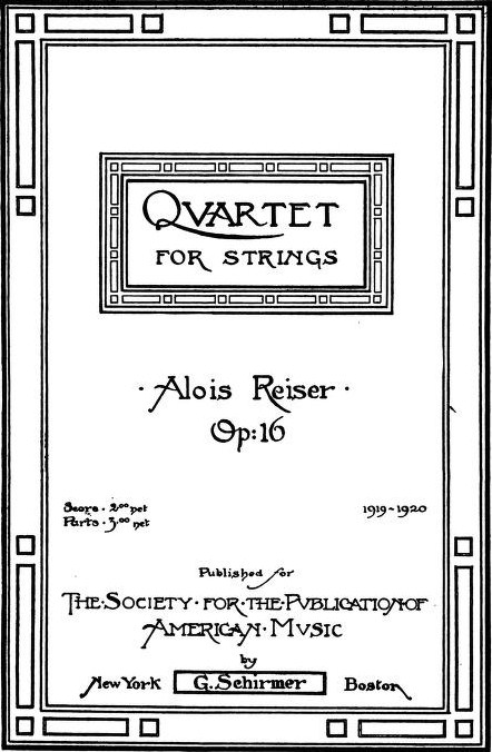 String quartet op. 16 - title page